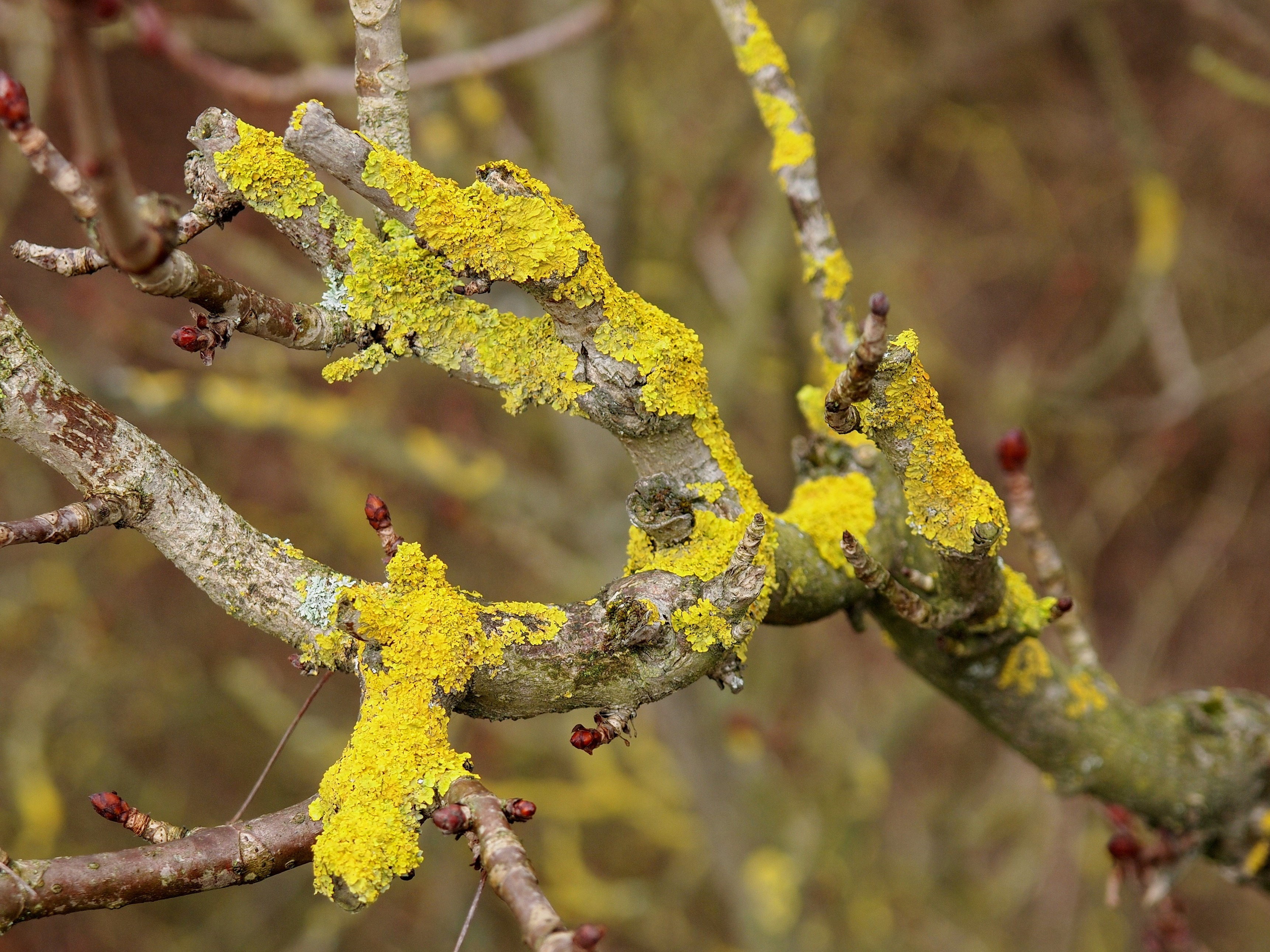 Xanthoria parietina on a horse-chestnut tree